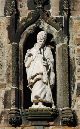 Deiniol Sant Cadeirlan Bangor Cathedral St Deiniol. This statue of the founder of the clas (monastery) at Bangor is over the south door to 592933